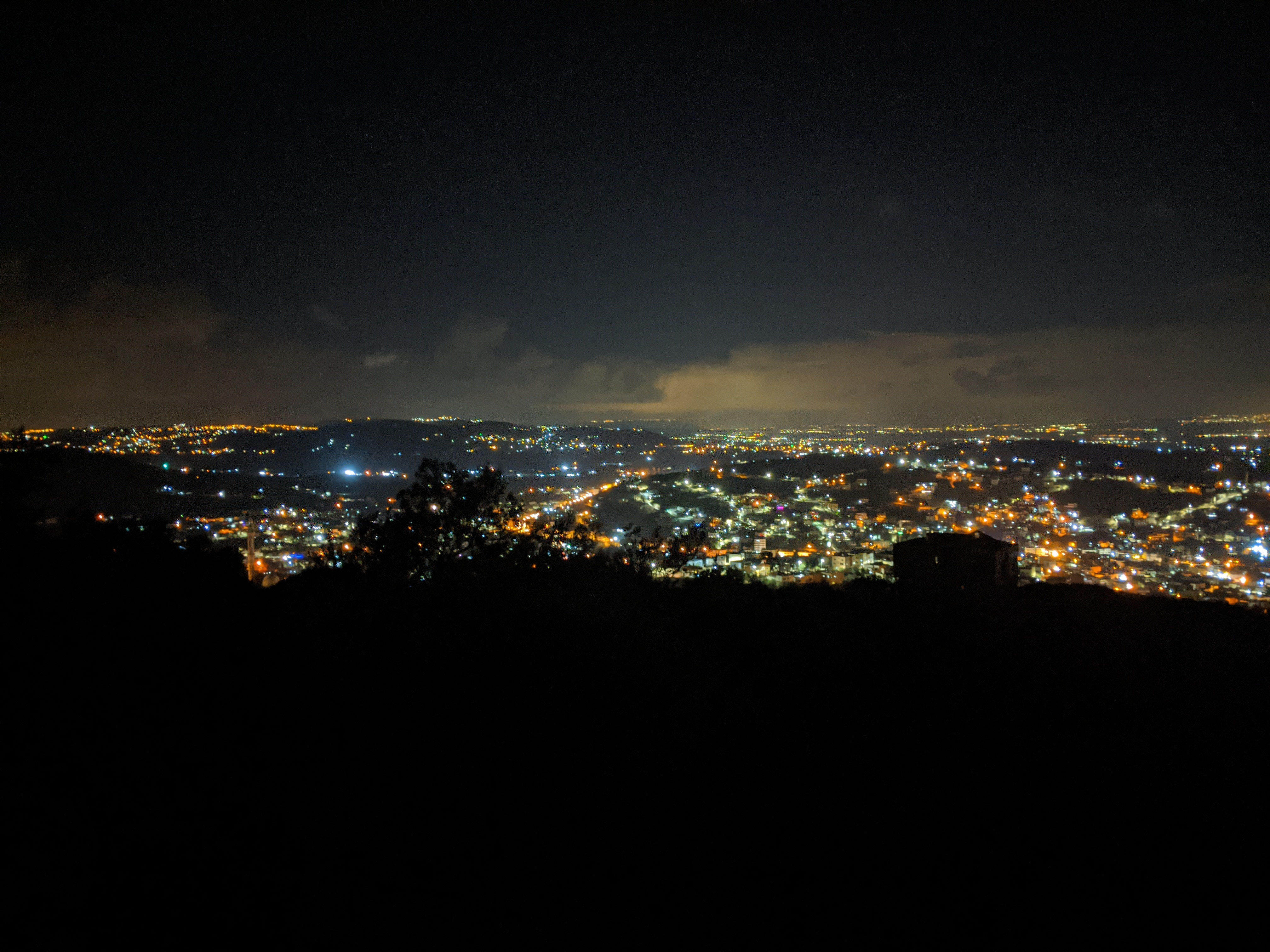 Qabatiya at night in 2019